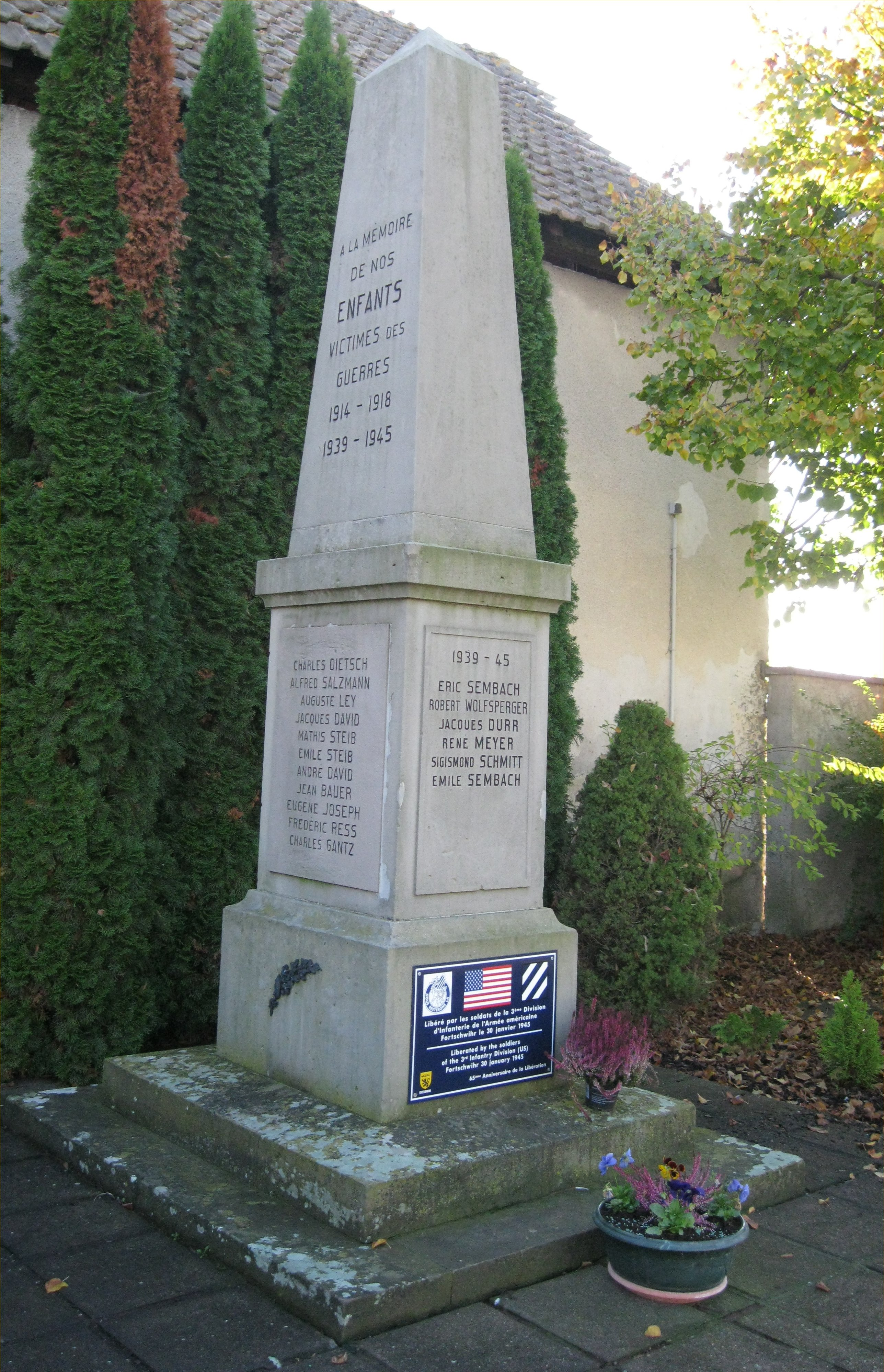 The war memorial of Fortschwihr, Haut-Rhin (France).